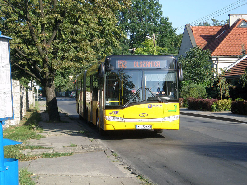 Solaris Urbino 18 bus (#MR909) in Kraków, Poland. Built 2008, Mobilis operator.